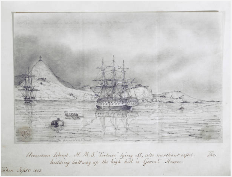 Ascension Island. HMS Tortoise lying off, also merchant vessel. The building halfway up the high hill is Government House. 1 September 1853.